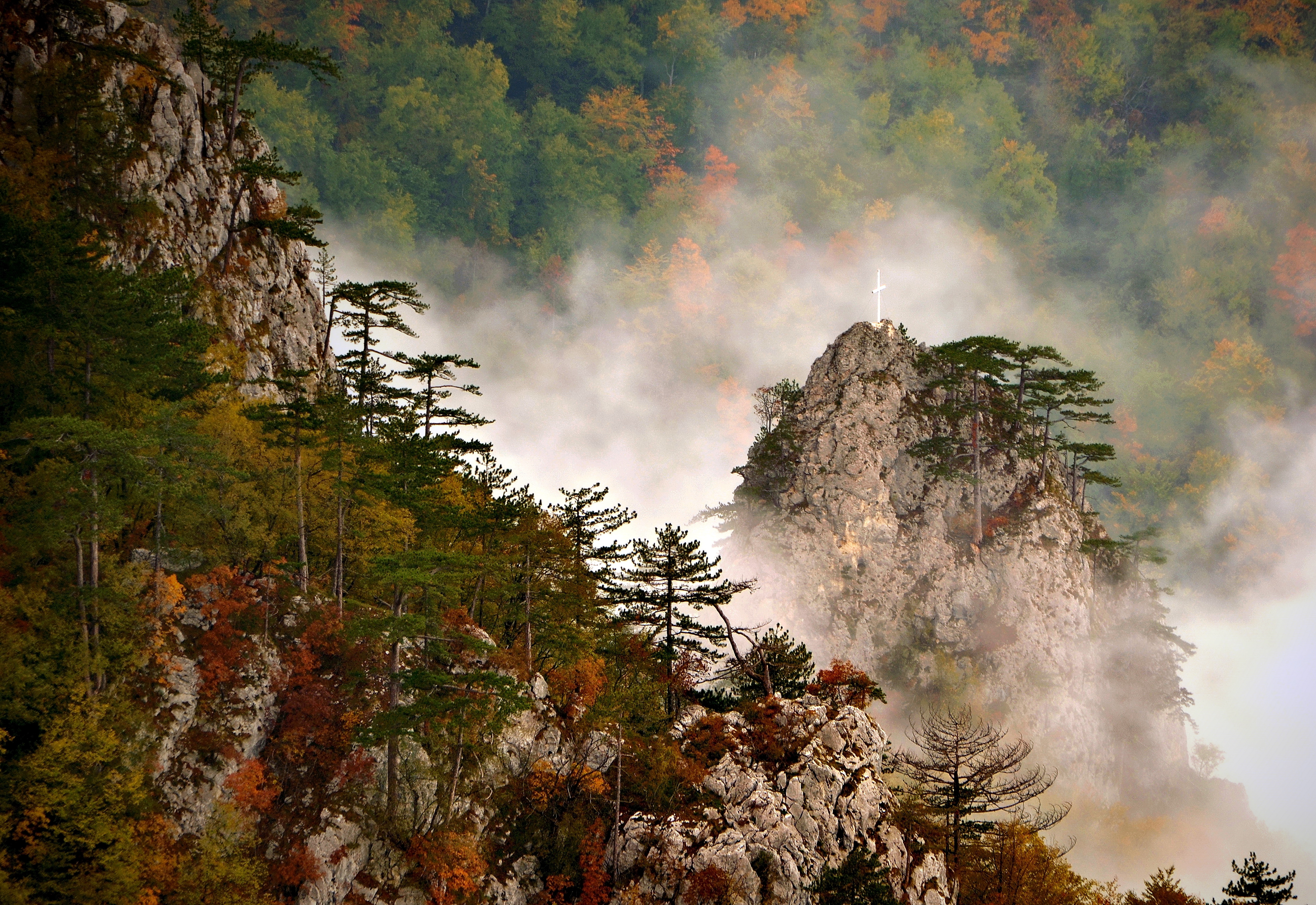 Tara is a mountain located in western Serbia. It is part of Dinaric Alps and stands at 1,000-1,500 metres above sea level. The mountain's slopes are clad in dense forests with numerous high-altitude clearings and meadows, steep cliffs, deep ravines carved by the nearby Drina River and many karst, or limestone caves. The mountain is a popular tourist centre. Tara's national park encompasses a large part of the mountain. The highest peak is Zborište, at 1,544 m.